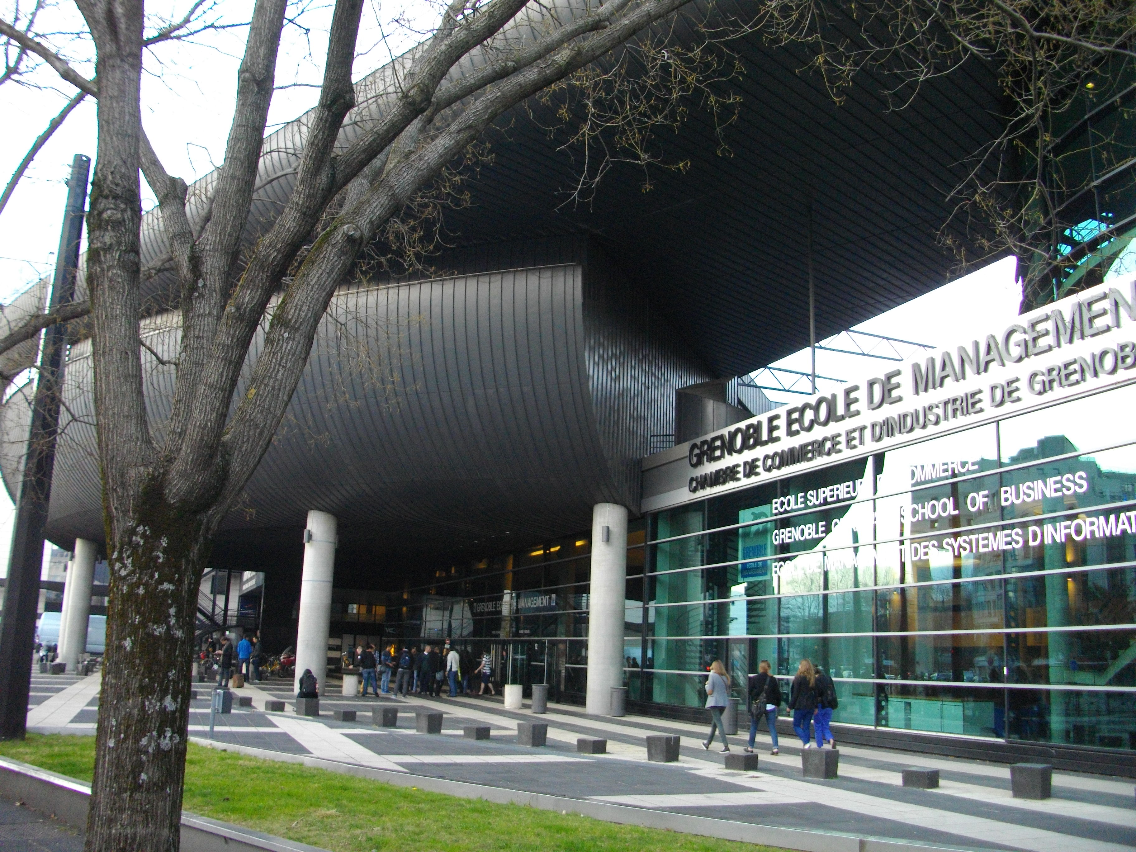 Grenoble School of Management